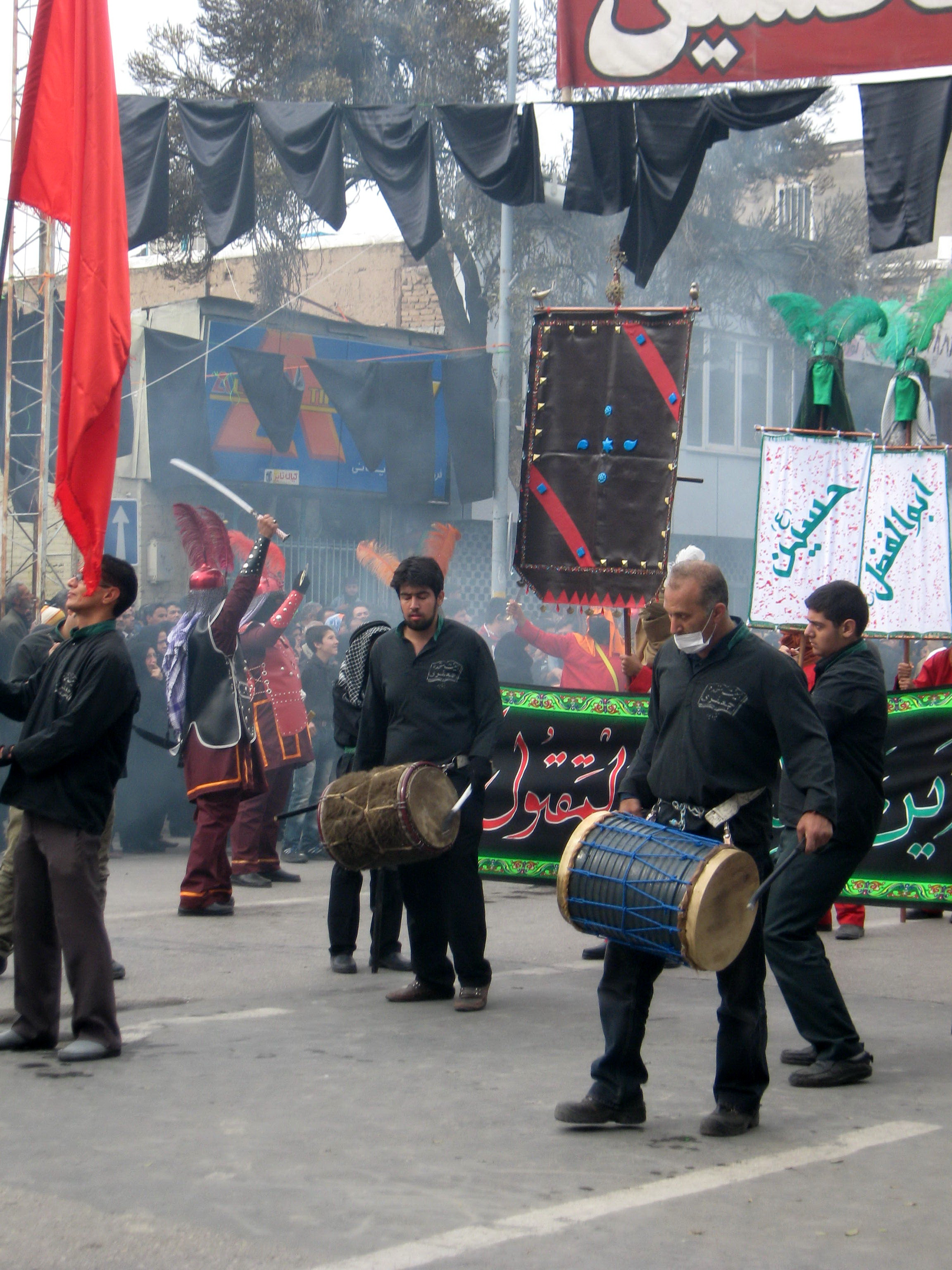 Dramatic (Shabih) - November 14,2013 - Muharram 10,1435 - Main Street of Nishapur